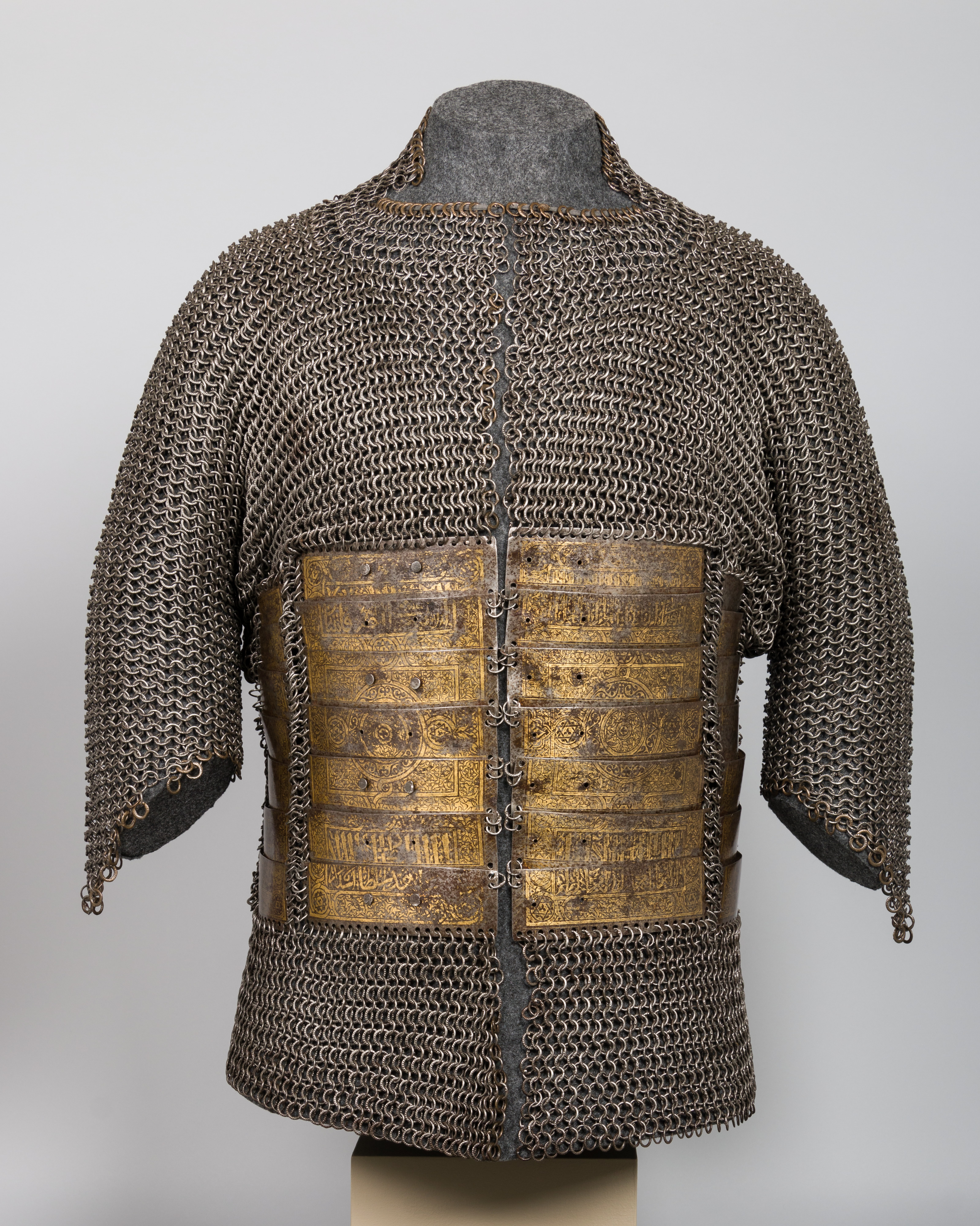 Shirt of mail and plate; probably Egyptian; Mail